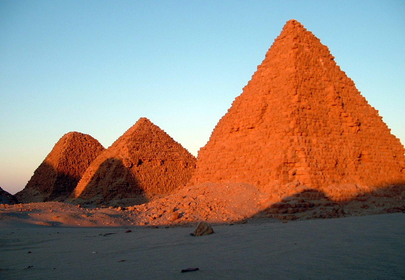 The pyramid field of Nuri contained 21 kings together with 52 queens and princesess . The first to build his tomb at Nuri was king Taharqa. His pyramid had 51.75 m square and 40 or 50 m high. Taharqa subterranean chambers are the most elaborate of any Kushite tomb. The entrance was by an eastern stairway trench , north of the pyramid's central axis, reflecting the alignment of the original smaller pyramid. Three steps led to a doorway, with a moulded frame, that opened to a tunnel, widened and heightened into an antechamber with a barrel-vaulted ceiling. Six massive pillars carved from the natural rock divide the burial chamber into two side aisles and a central nave, each with a barrel-vaulted ceiling. The entire chamber was surrounded by a moat-like corridor entered steps leading down from in front of the antechamber doorway. After Taharqa 21 kings and 53 queens and princesess were buried at Nuri under pyramids of good masonry, using blocks of local red sandstone. The Nuri pyramids were generally much larger than those at el-Kurru, reaching heights of 20 to 30 m. The last king to be buried at Nuri died in about 308 BC. Taken in Nuri,Northern Sudan. Check my set: Pyramids & templeS